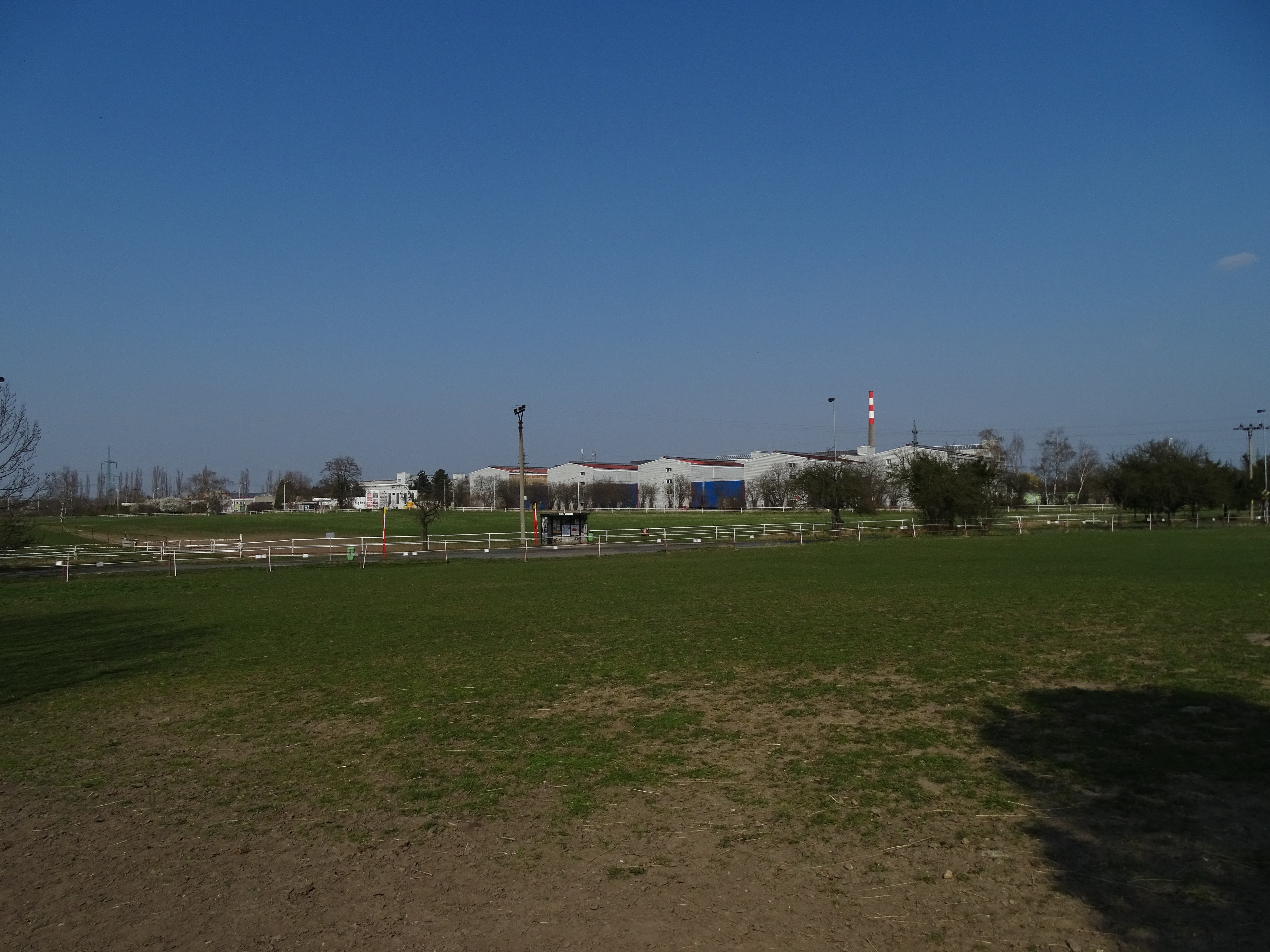 Prague-Horní Počernice, Czech Republic. Xaverov, horse pastures.